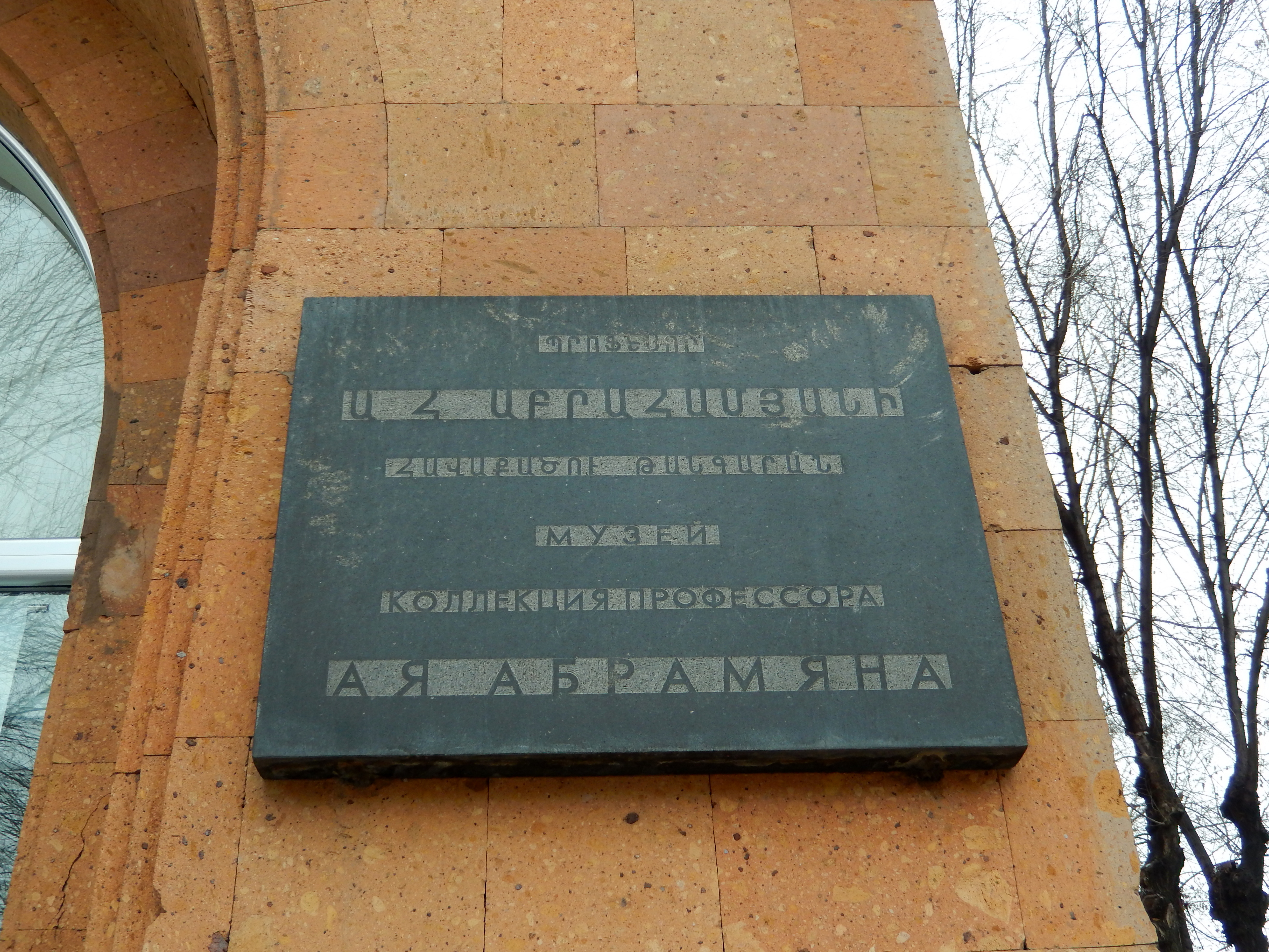 Aram Abrahamyan Plaque for Russian Art Museum, Yerevan